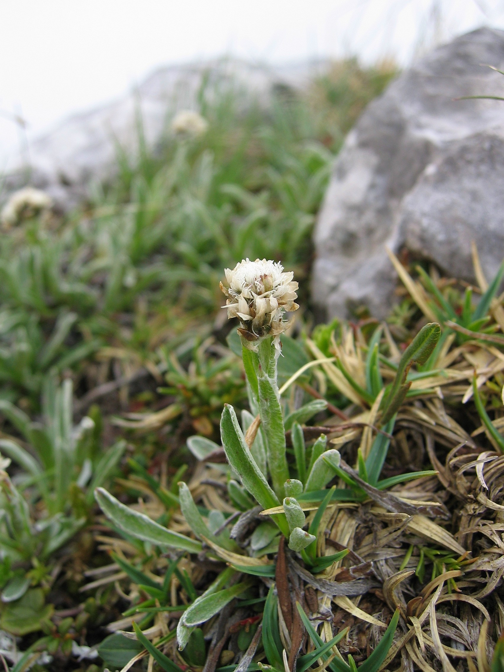 Antennaria carpatica, Warscheneck ~2.000 m, Upper Austria, Austria